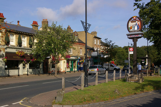 Royal Parade and Chislehurst village sign. See 1530906 for background to Royal Parade and 1715920 for close-up and background to the village sign.